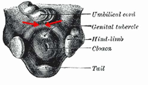 Application of Image:Gray1119.png The mesoderm extends to the midventral line